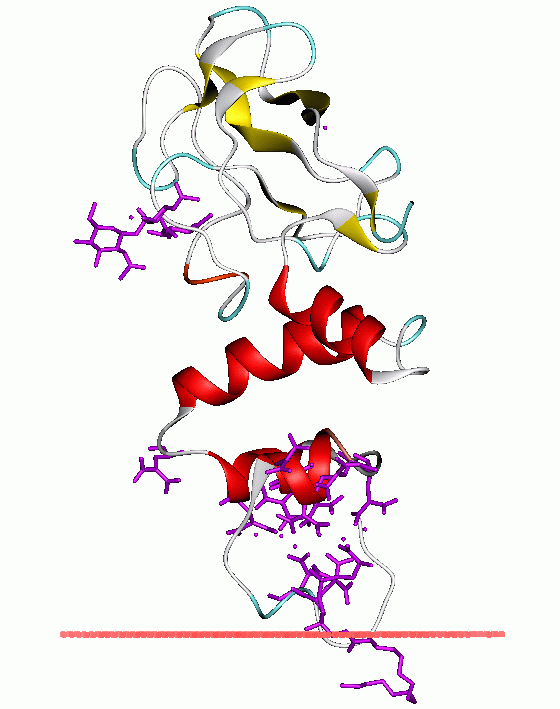 Protein image from OPM database